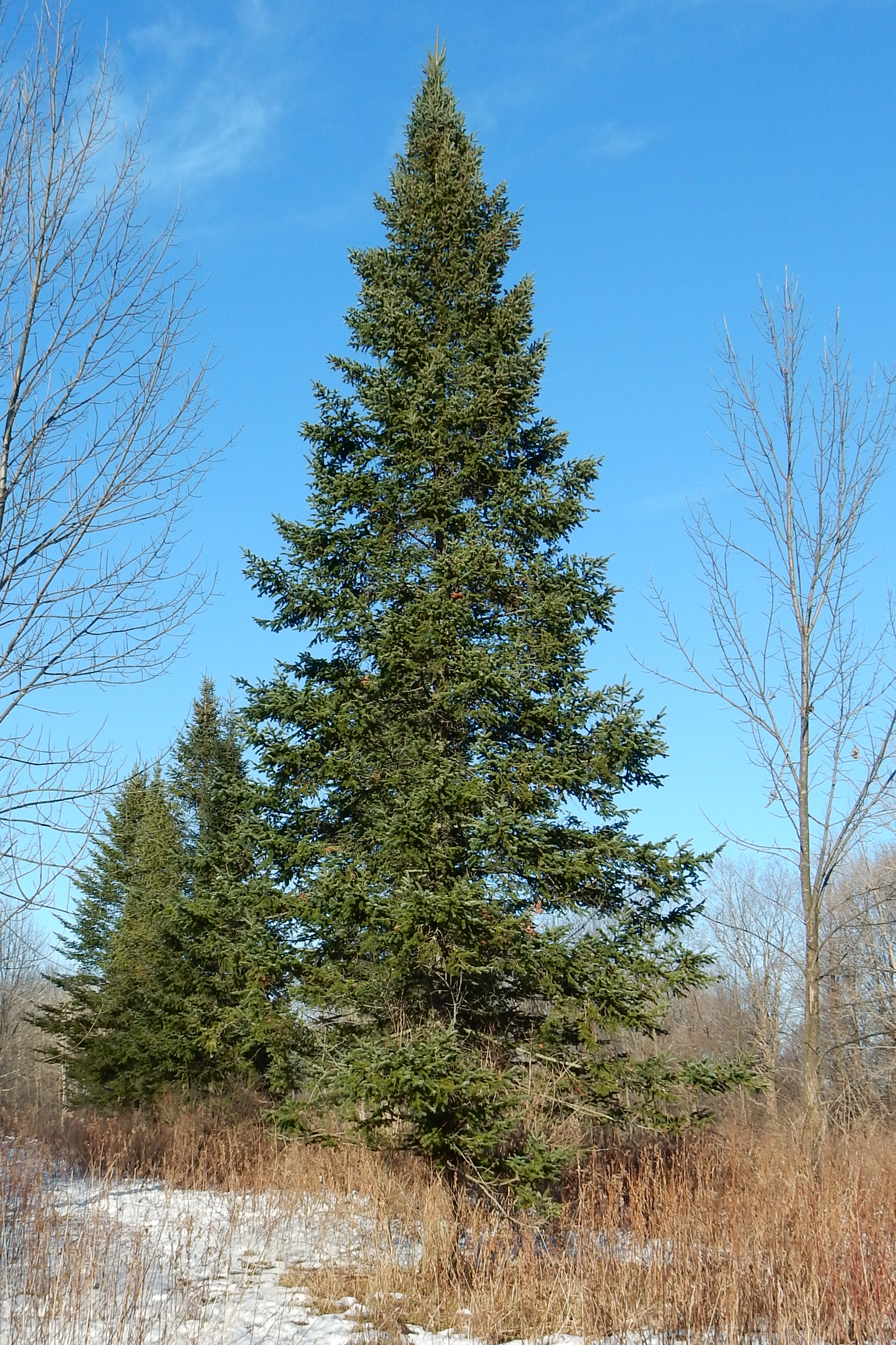 Abies balsamea (L.) Mill.- balsam fir - at the Skaneateles Conservation Area, Onondaga County, New York